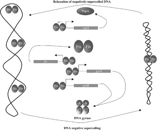 dna negative supercoiling with fis